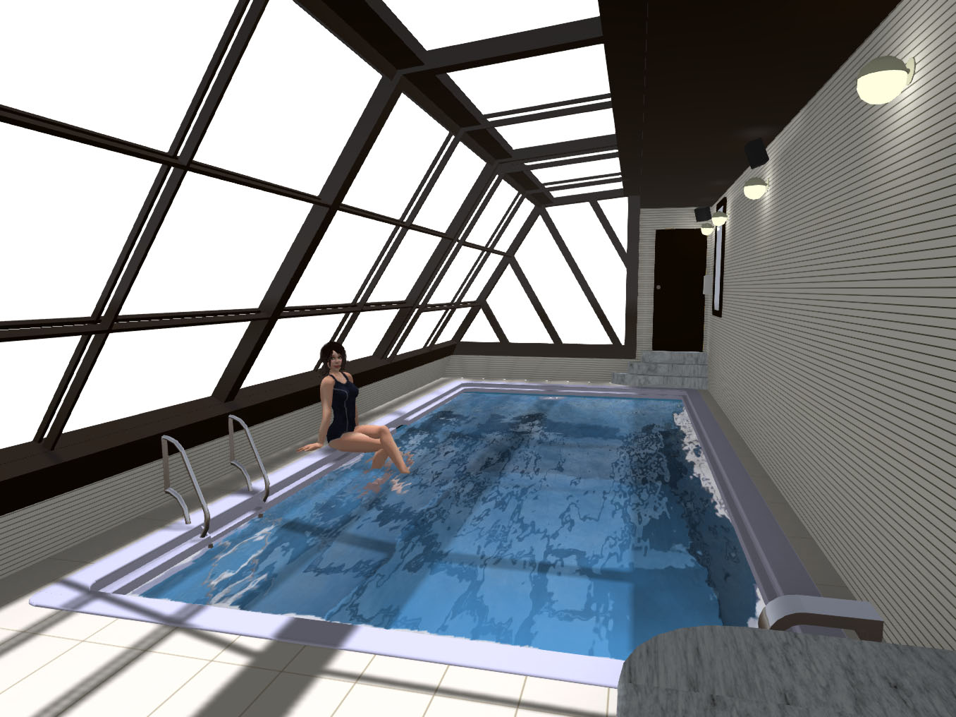 The Pool (Rei no pool) - one of the most famous film studios in Japan for sexual photos and movies of young girls. reproduced in CG